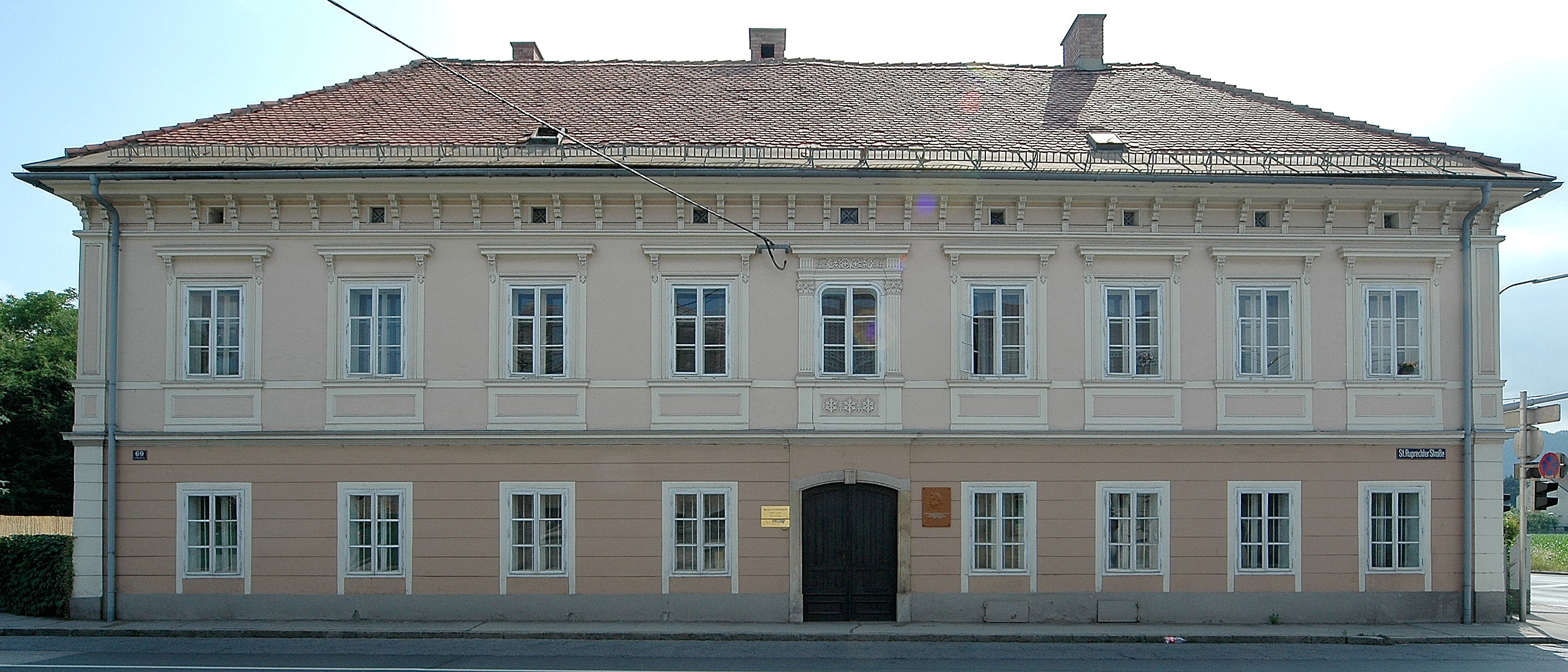 Birth-house of the sculptuor Josef Valentin Kassin in the Sankt Ruprechter Street in the 11th district “Sankt Ruprecht” of Klagenfurt, Carinthia, Austria